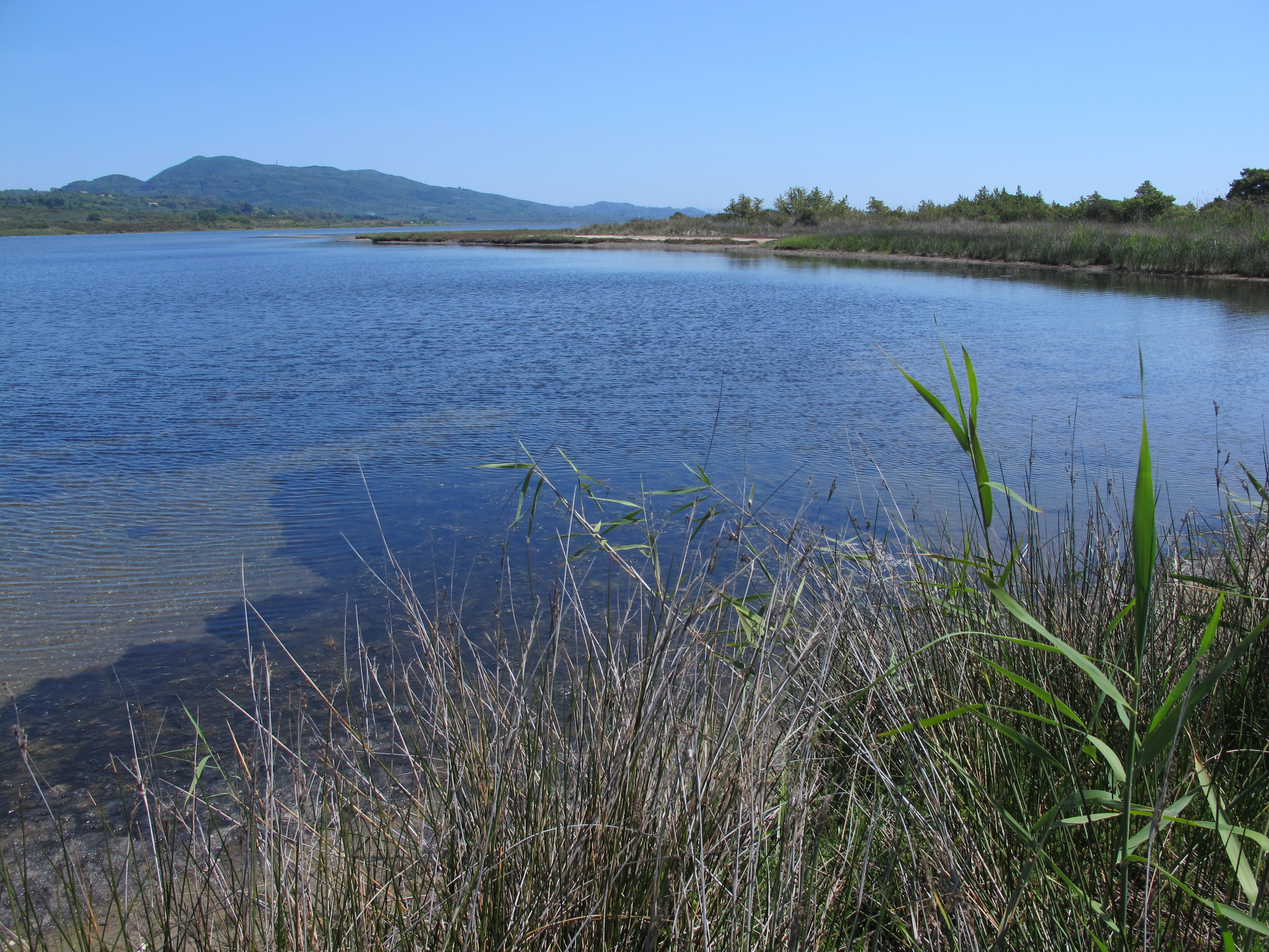 Lake Korission in April